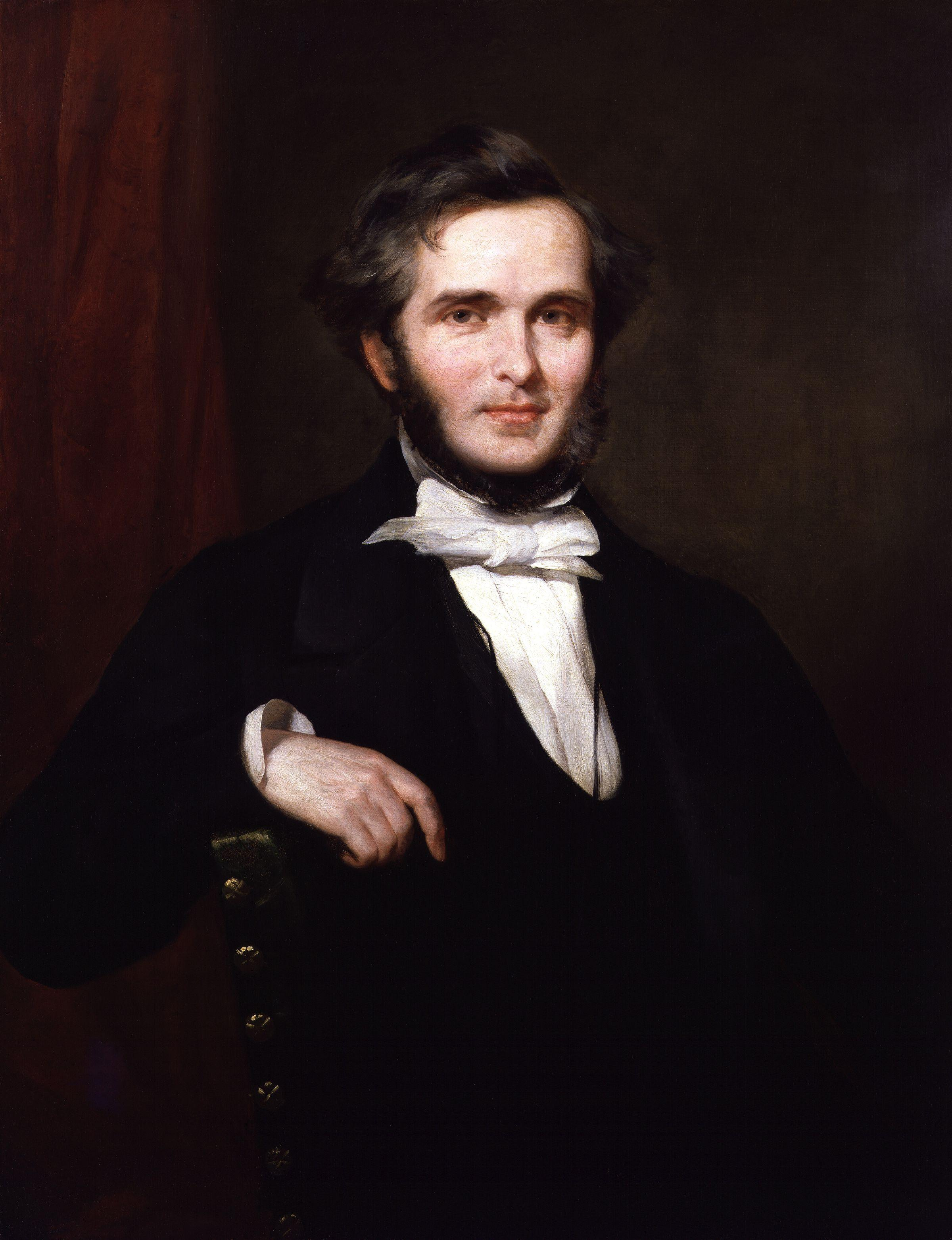 John Curwen, by William Gush (died 1888), given to the National Portrait Gallery, London in 1896. All images in this batch have been confirmed as author died before 1939 according to the official death date listed by the NPG.